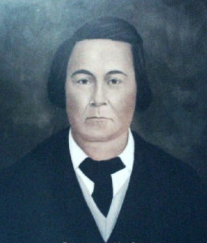 Portrait of Greewood Leflore, a Choctaw American Indian, and Mississippi Senator.